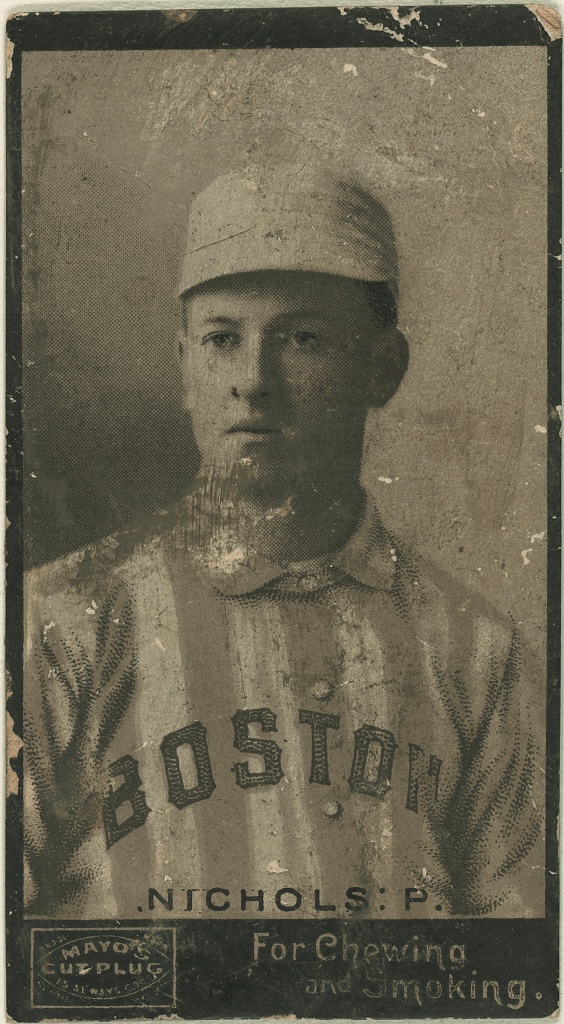 Title: Kid Nichols, Boston Beaneaters, baseball card portrait Abstract/medium: 1 photomechanical print : haltone and stencil.